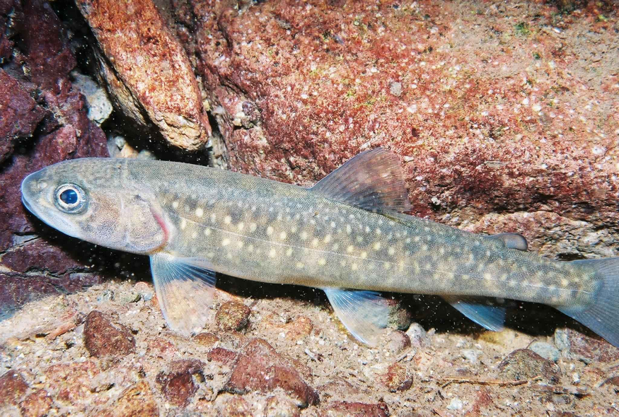 Image title: A juvenile bull trout fish resting underwater Image from Public domain images website